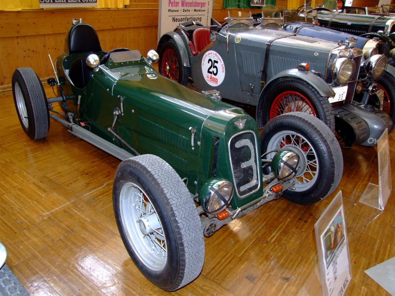 Austin Seven Nippy, Rubber Duck Monoposto